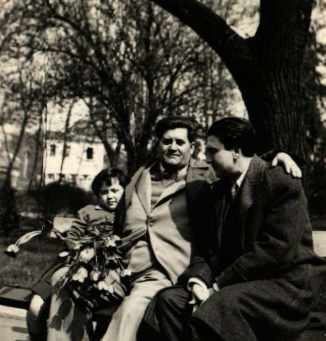 Bulgarian actor Stefan Kortenski